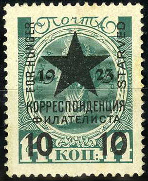 Stamp of Far Eastern, 1923